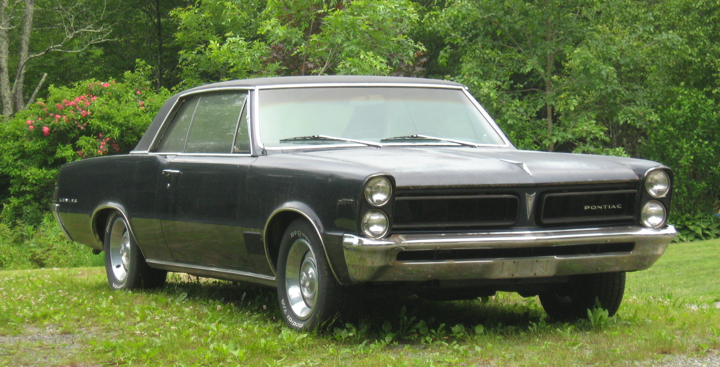 1965 Pontiac LeMans, not Tempest (second generation) two-door hardtop (note: the wheels are not factory original, but look like they came from a Chevrolet)